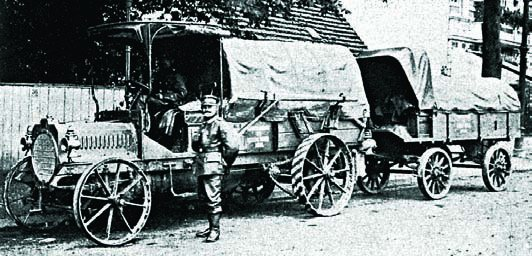 NAG 14PS truck with trailer of Imperial German Army (1905)